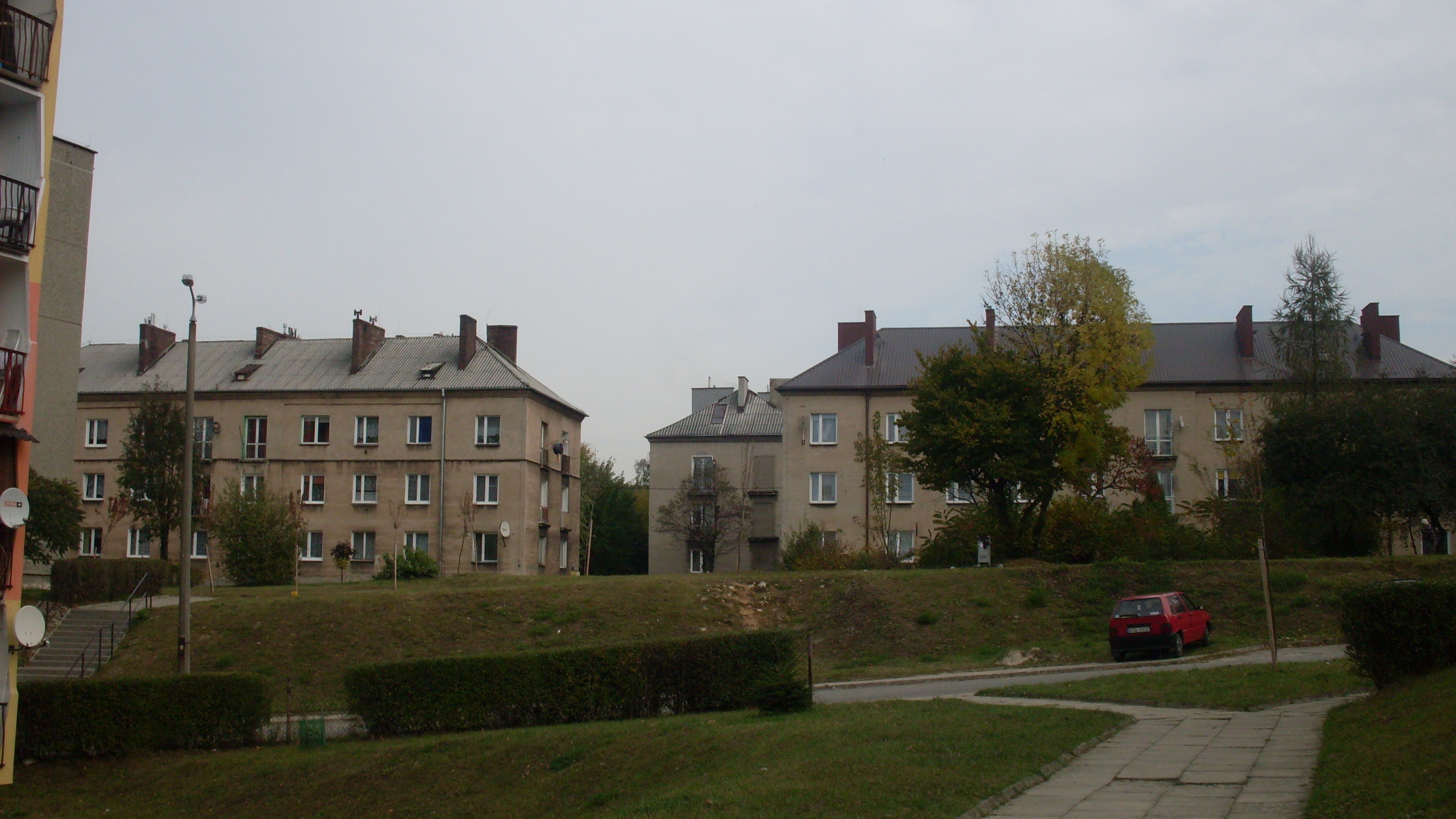 Bukowno.Zwycięstwa Street